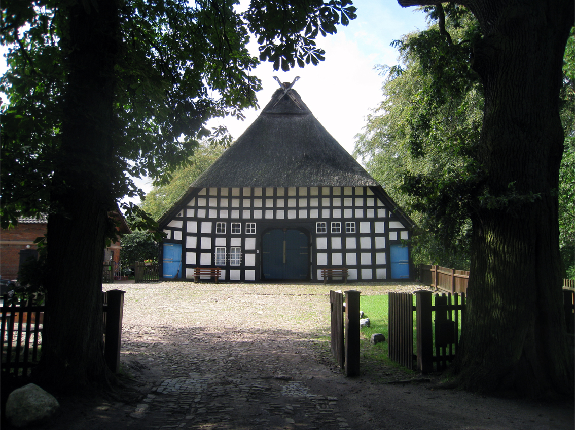 The Lür-Kropp-Hof in Bremen-Oberneuland, Germany.